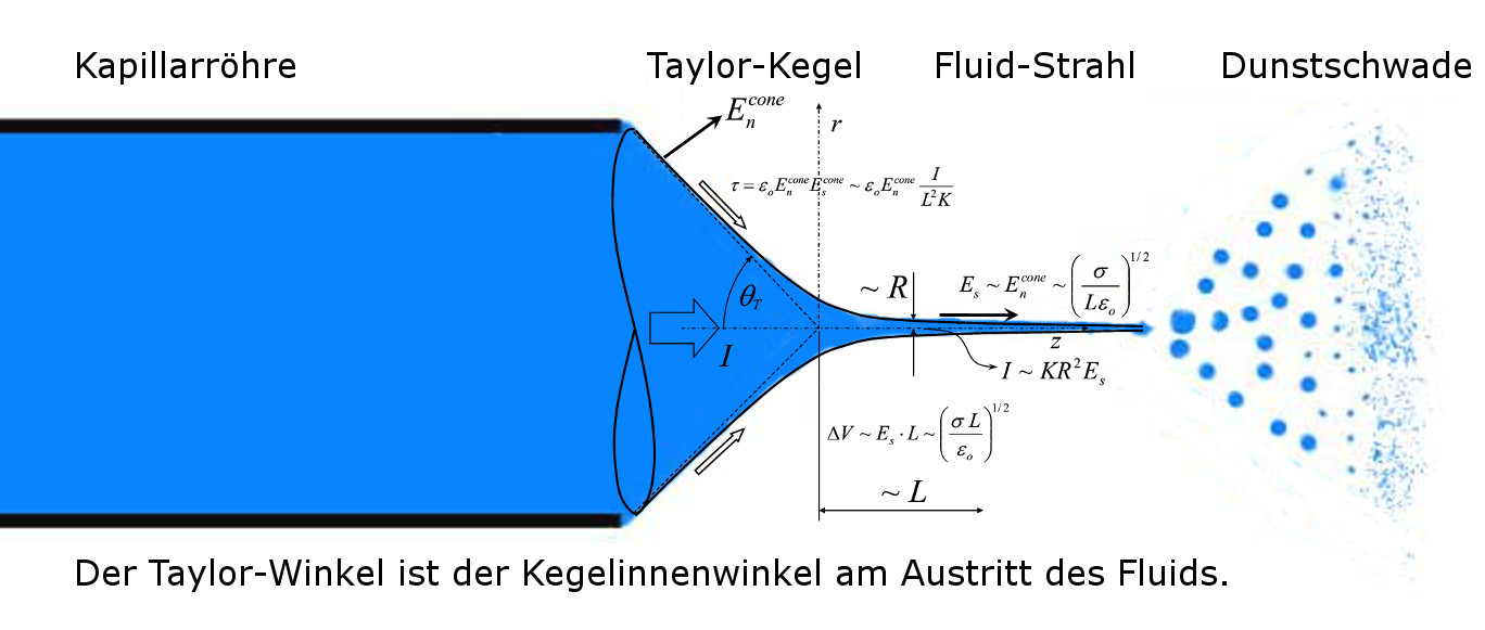 This picture shows a geometric model of the Taylor cone.